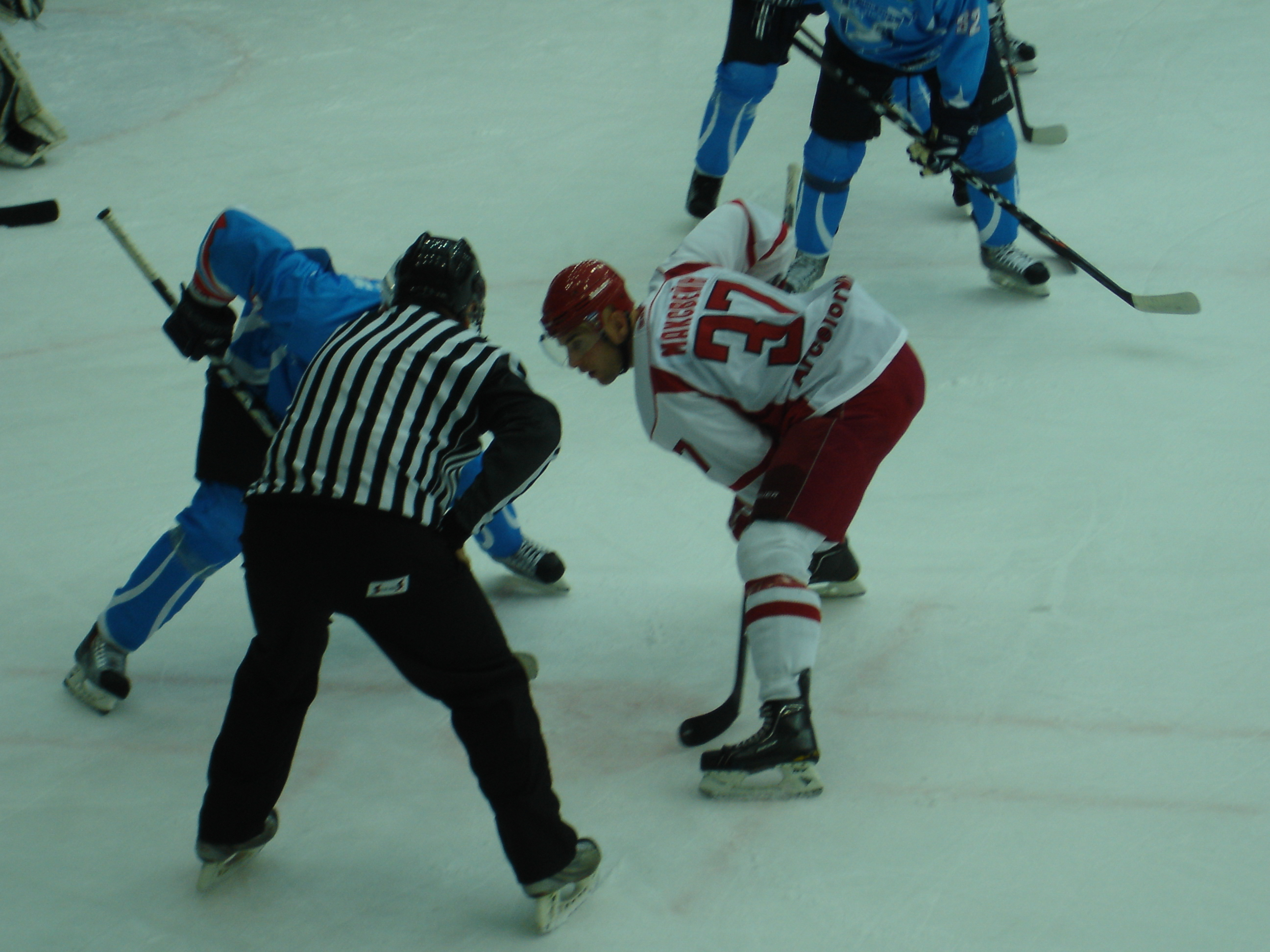 Ice hockey stadium Astana, Pavlodar, Kazakhstan. View at the ice field during the Yertis-Arystan match, September 24, 2011. Fragment of the match.